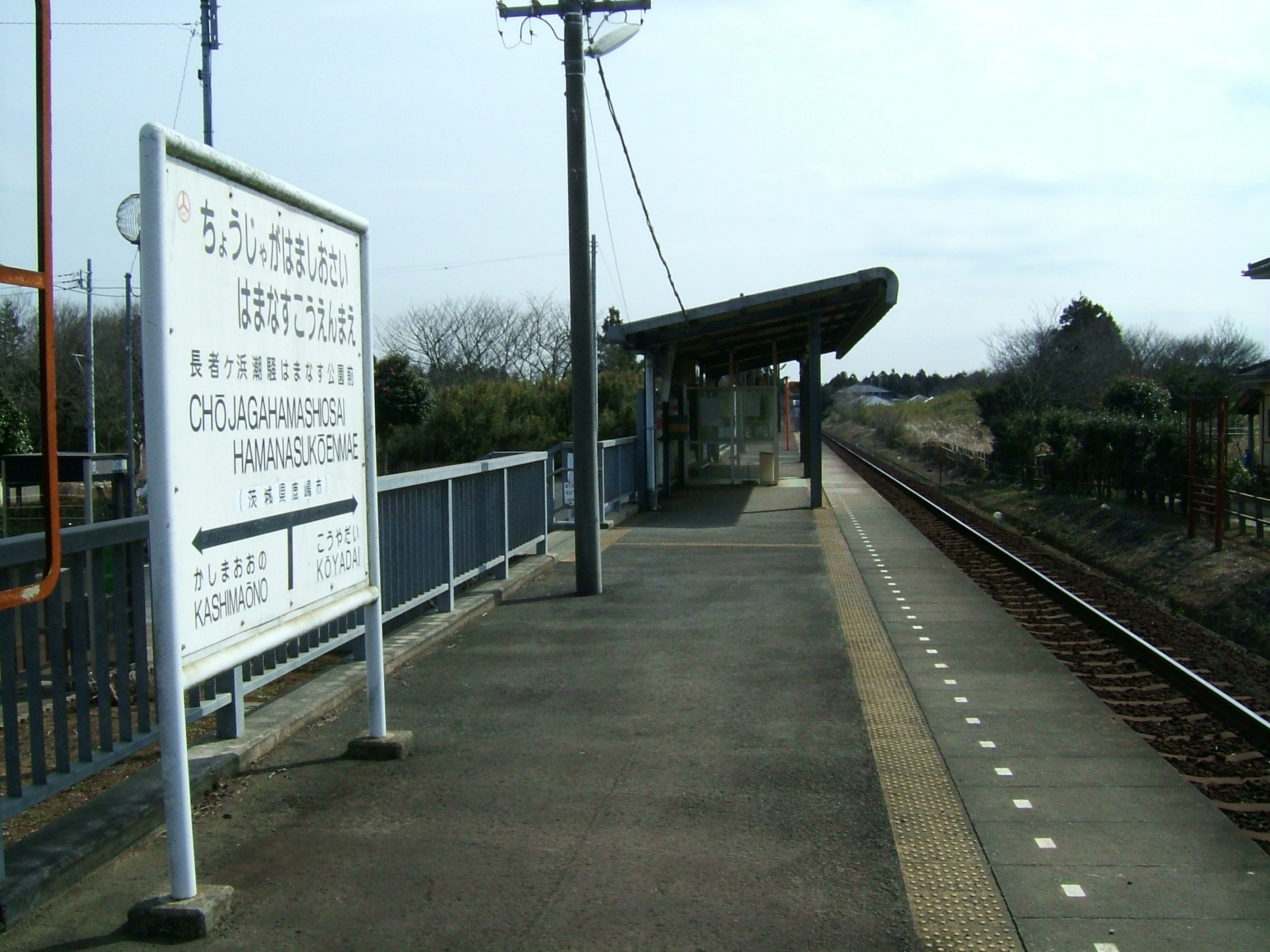 Chojagahama Shiosai-Hamanasu Koen mae Station platform (Kashima Seaside Railway Oarai-Kashima Line)